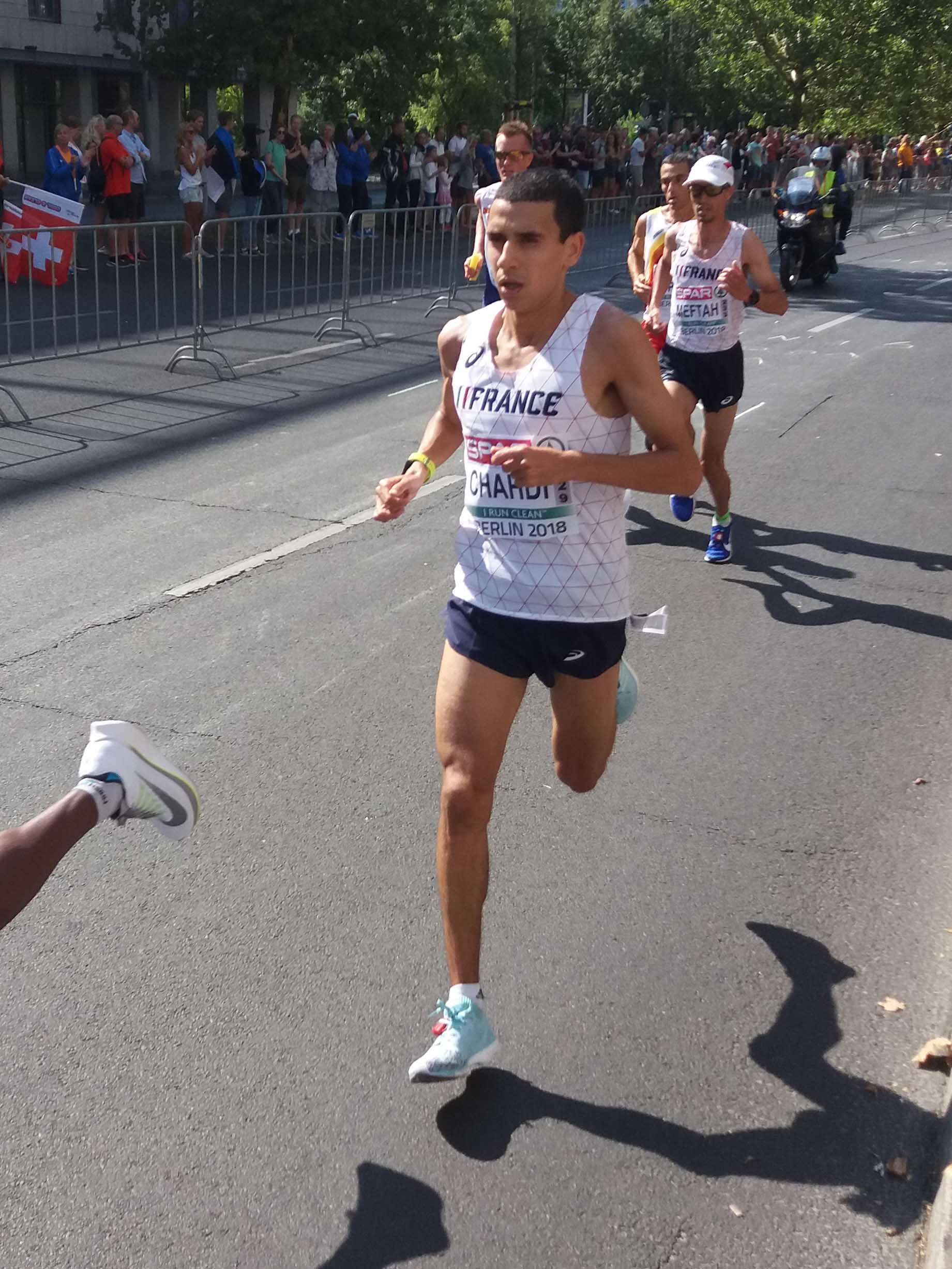 Marathon at the 2018 European Athletics Championships